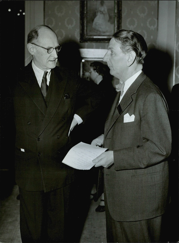 Annaeus Schjødt and Yngve Larsson at the Swedish-Norwegian association's 10th anniversary